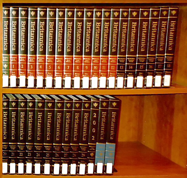 Encyclopaedia Britannica, 15th edition, with Britannica book of the year 2002, with white library labels.